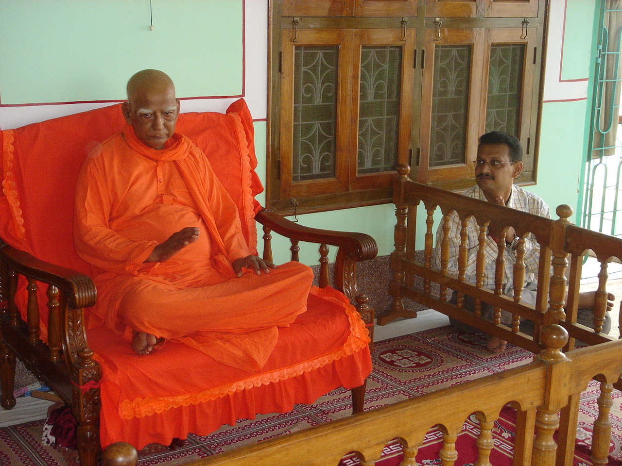 Maharshi Santsevi Paramhans Ji was a saint in the tradition of Santmat. This shows him with Pravesh K Singh, an initiate in Santmat